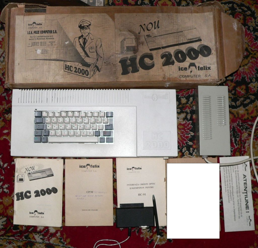 HC2000 computer modified to 128k of memory. Full, functioning package, including AY sound chip